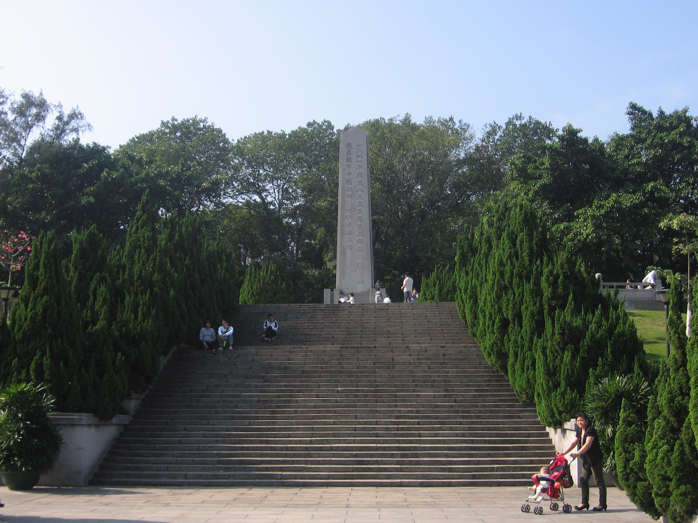 Sanyuanli People's Anti-British Monument, Guangzhou City, Guangdong Province, China.